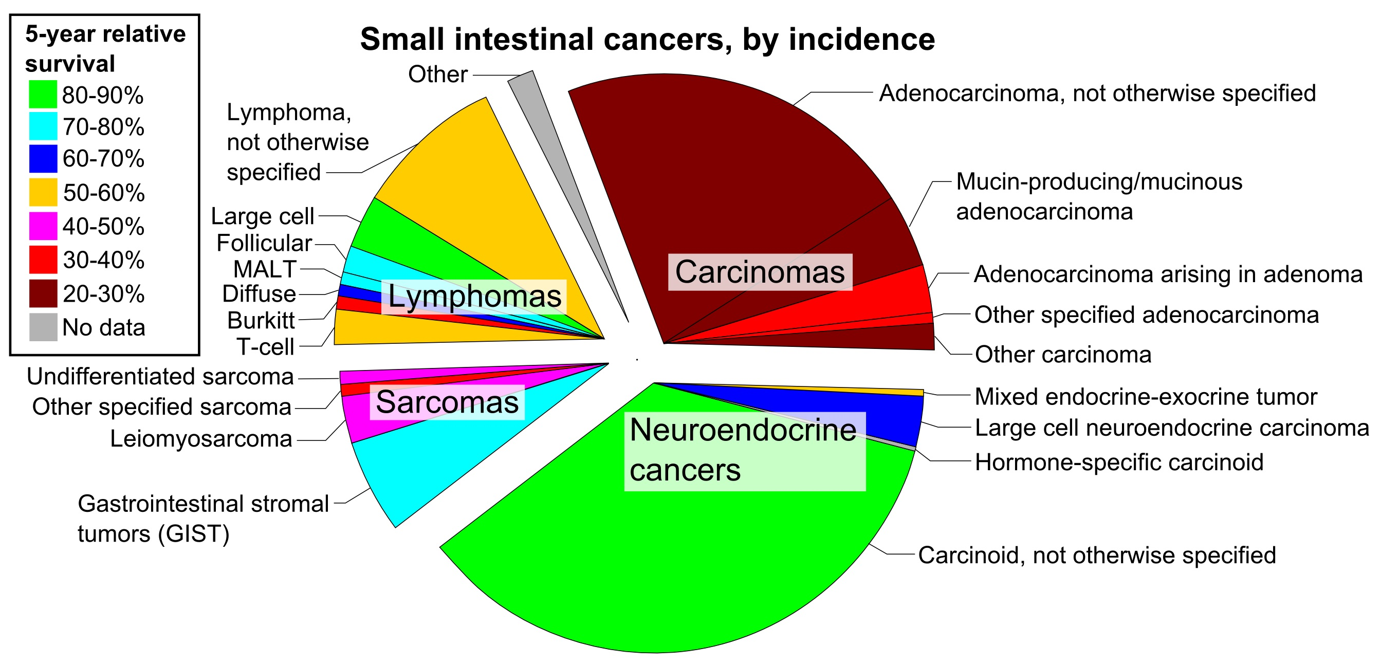 Small intestinal cancers by incidence and prognosis. Reference: (2010). "Small Intestinal Cancer: a Population-Based Study of Incidence and Survival Patterns in the United States, 1992 to 2006". Cancer Epidemiology Biomarkers & Prevention 19 (8): 1908–1918. ISSN 1055-9965.